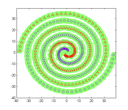 This figure shows the result of the LS-SVM classifier on the spiral data